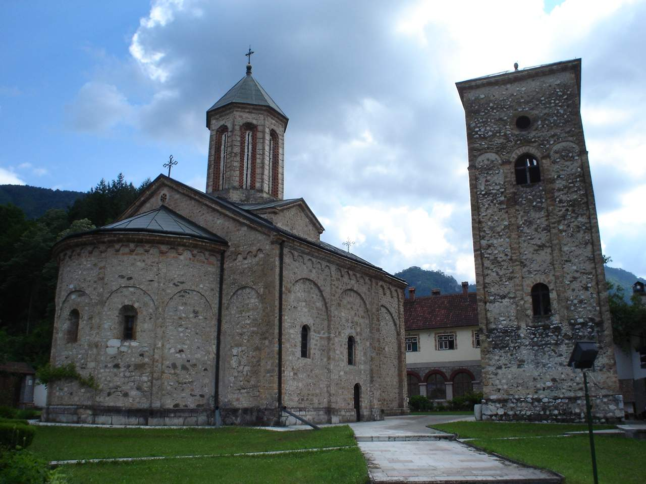 Rača Monastery, Serbia.